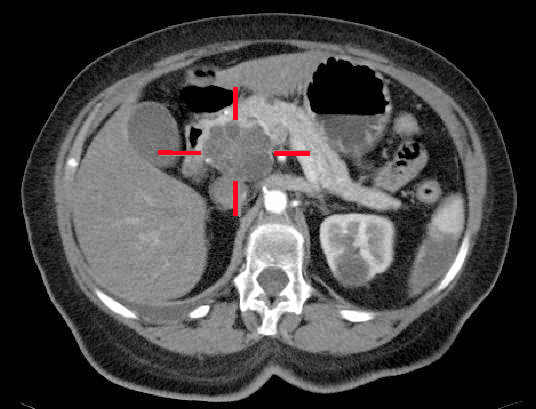 CT scanner section, after intravenous injection of a contrast medium, showing an adenocarcinoma cancer tumour at the head of the pancreas.